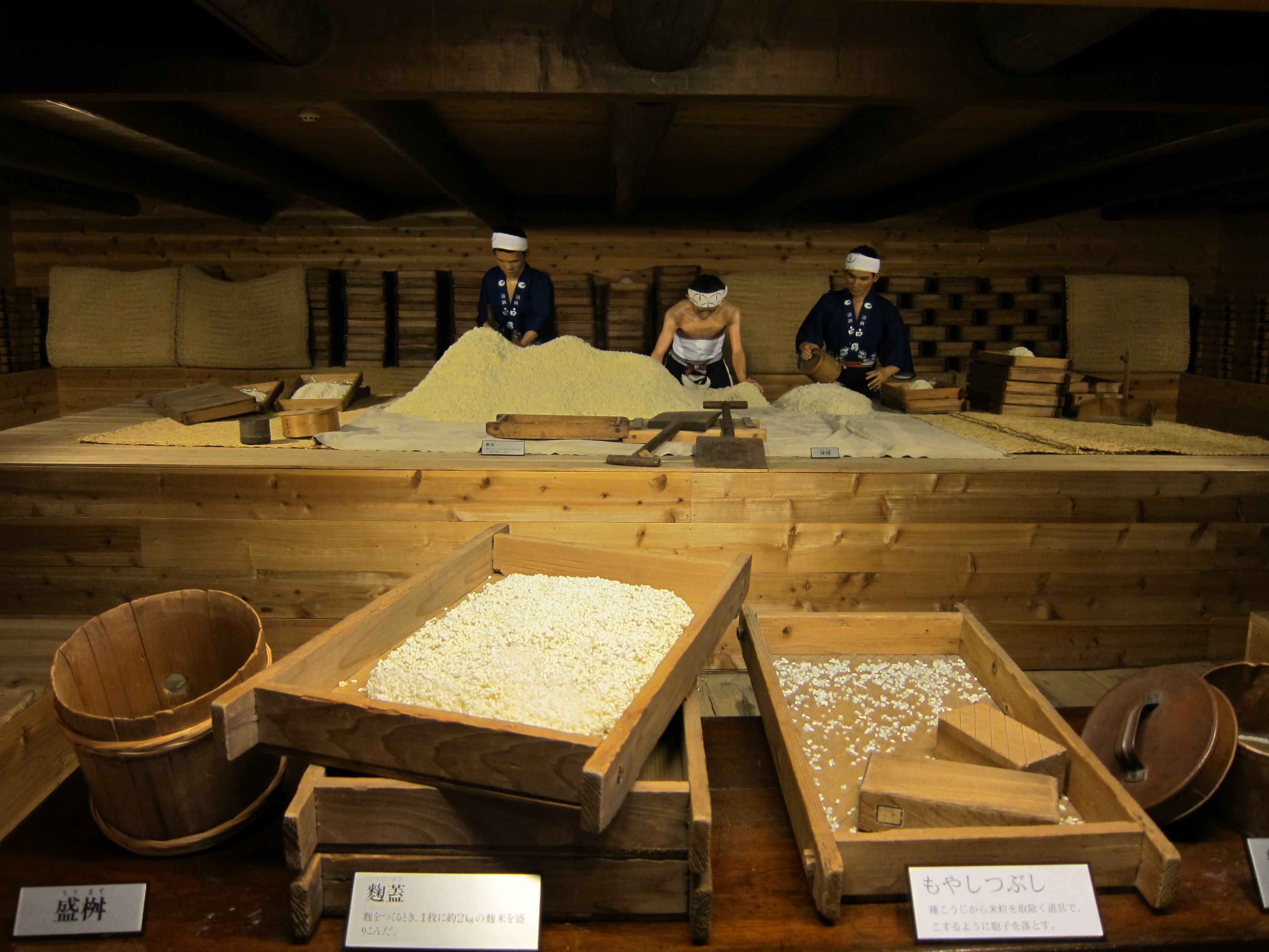 A Hakutsuru Sake Brewery Museum exhibit showing sake brewing process